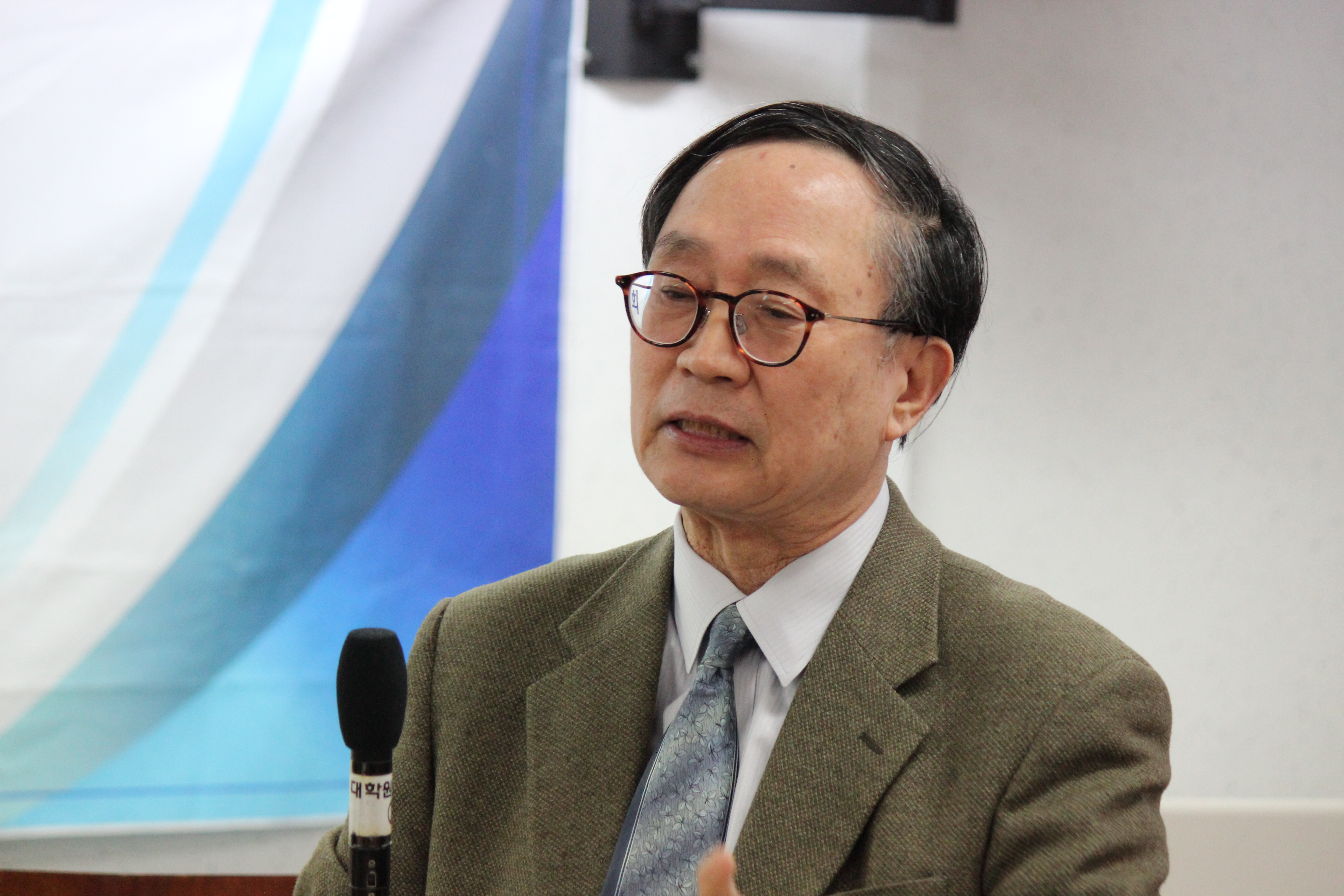 Professor YungHan Kim in Backsuck University